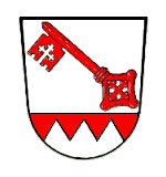 Coat of Arms of Bieberehren